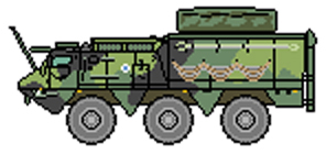 Panssari-Sisu, XA-202 EPA (Esikunta PAsi)